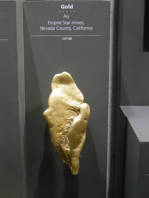 Gold nugget in National Museum of Natural History. Nugget is about 6 inches (15 cm) long.